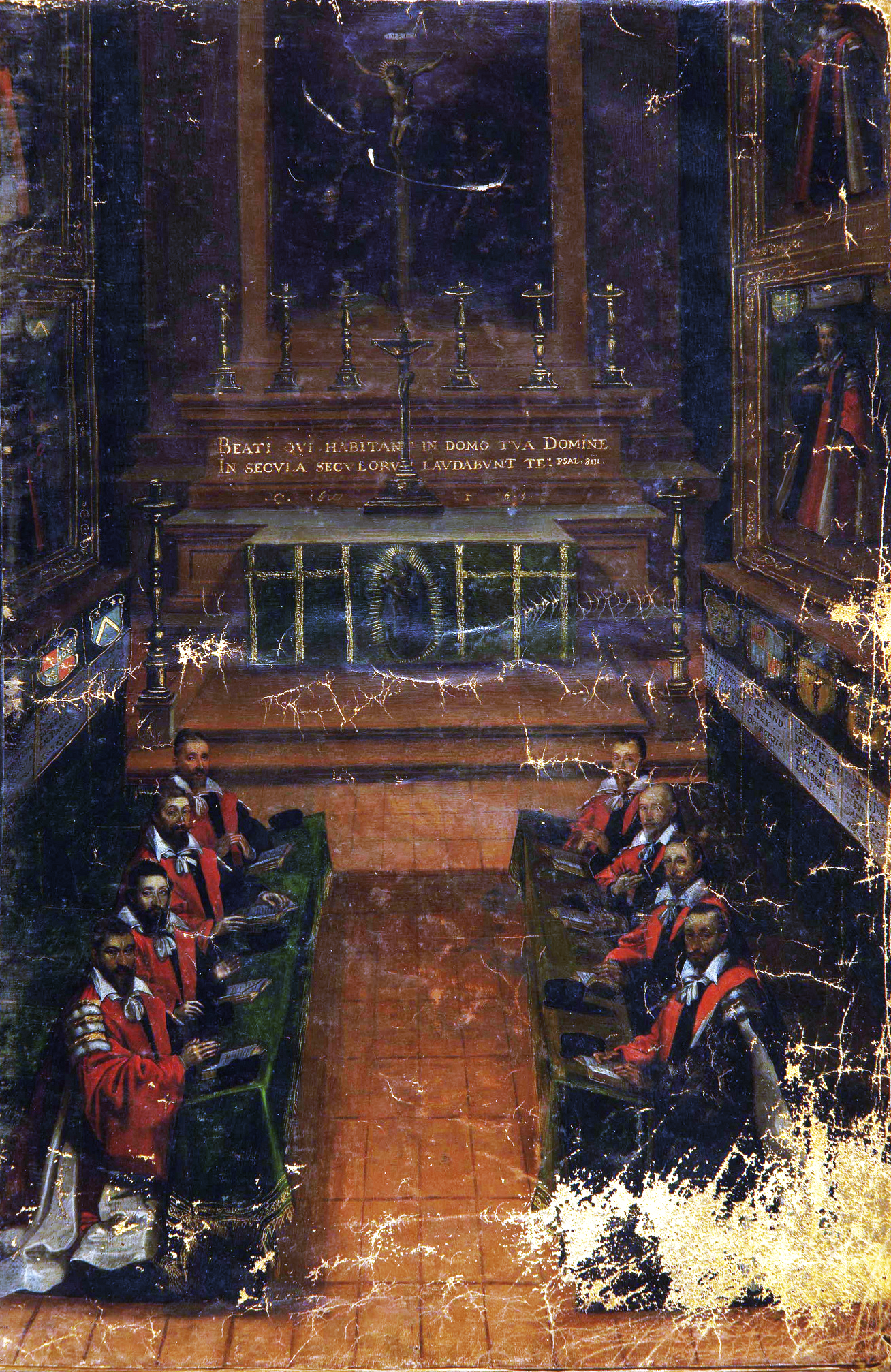 A portrait of the eight capitouls of Toulouse for 1618, in the chapel of the city's Capitol (town hall).